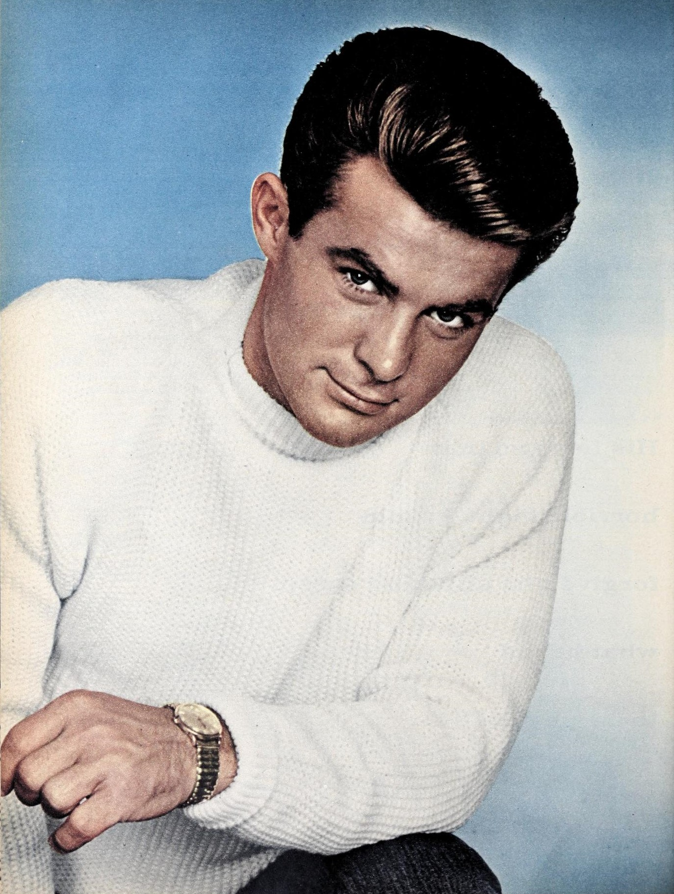 Bob Conrad 1961